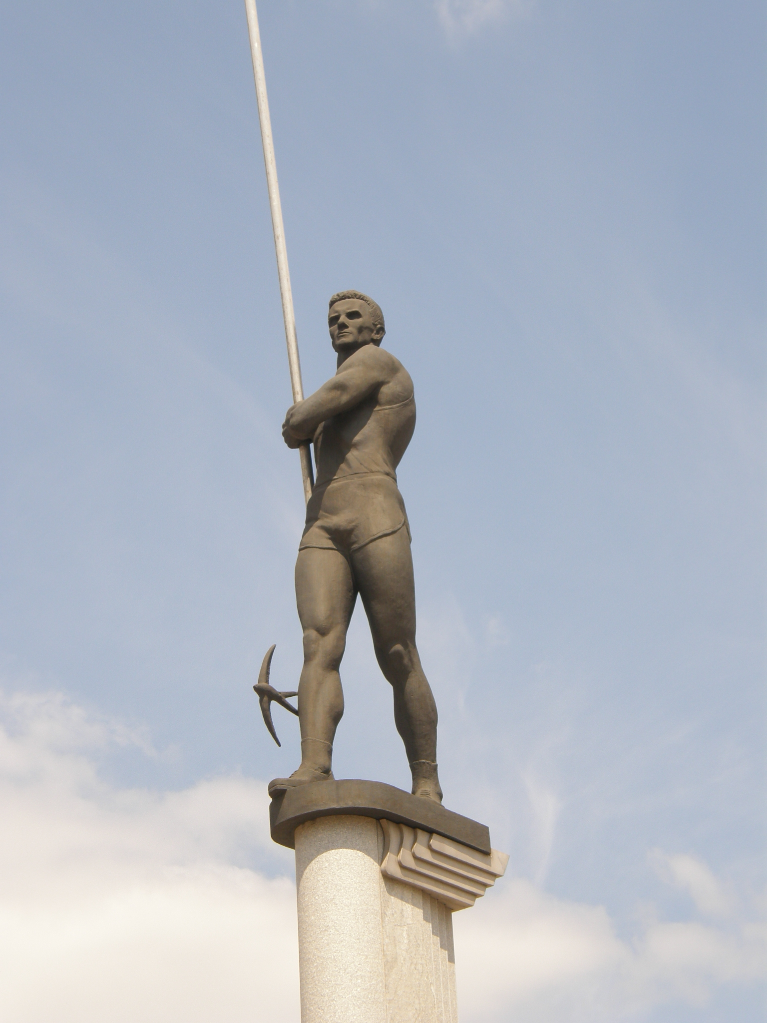 RSC Olimpiyskyi